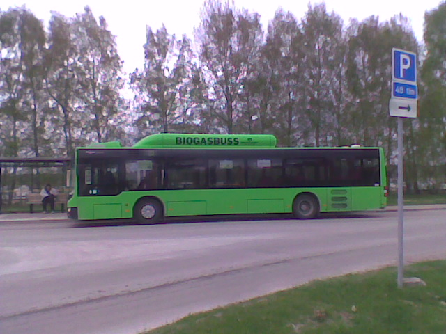 A MAN NL313 Lion's City CNG bus (#129) in Uppsala, Sweden. Built 2010, GUB Uppsala operator.